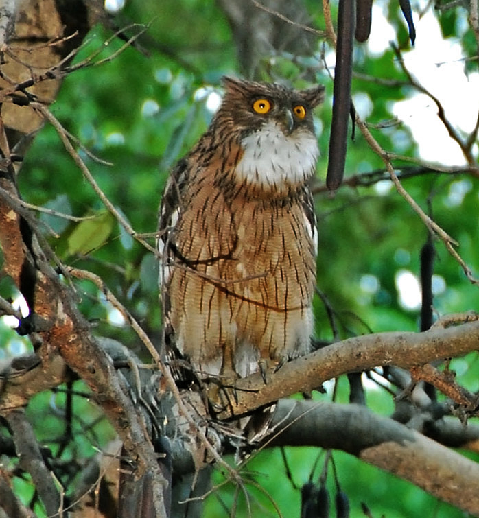 Brown Fish Owl, Bubo zeylonensis or Ketupa zeylonensis in Bandhavgarh National Park or Kanha National Park (Madhya Pradesh, India)